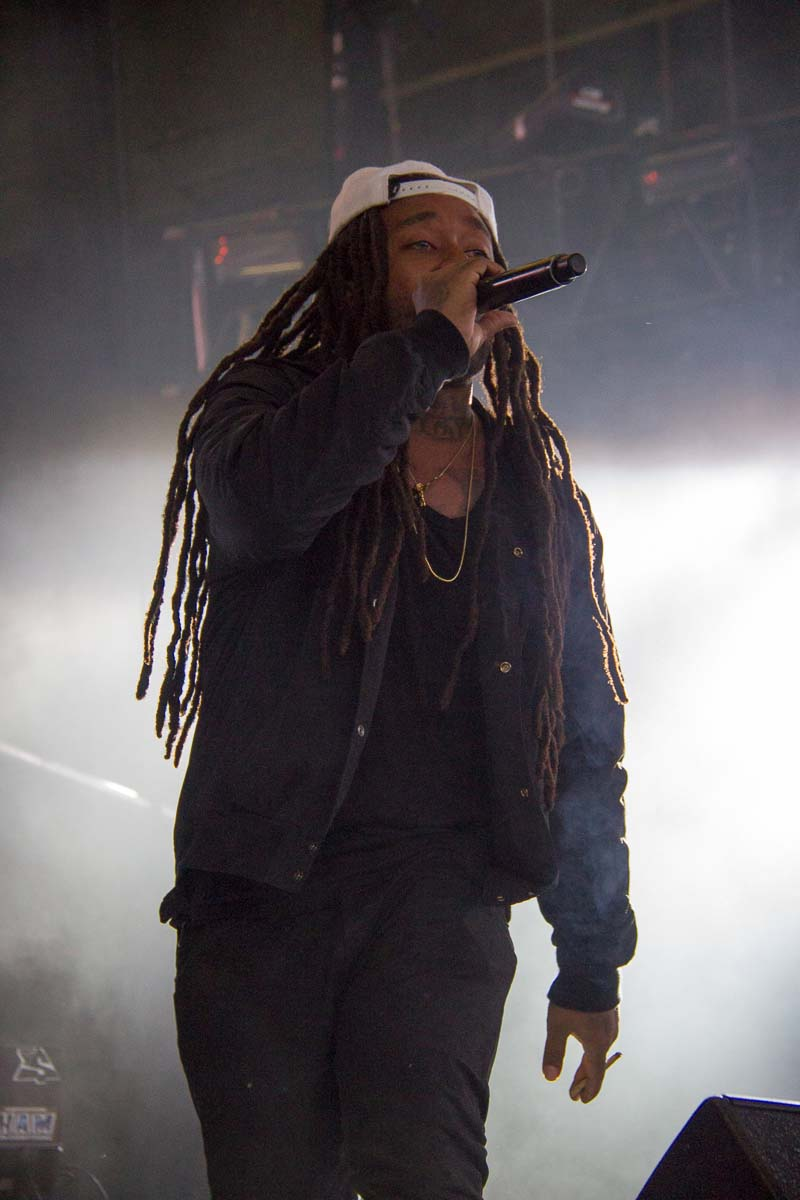 Ty$ in 2014